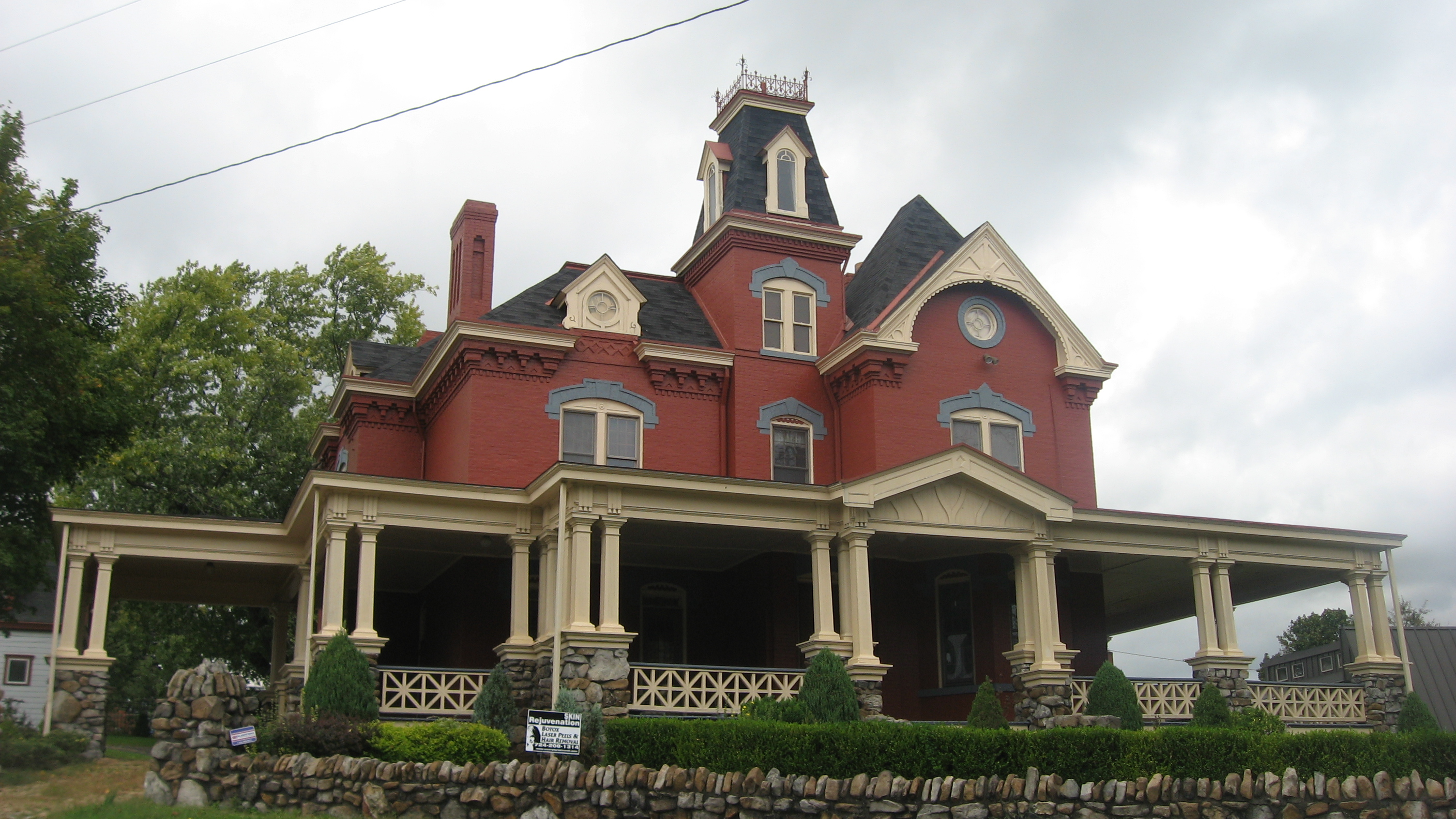 Front of the Adam Clarke Nutt Mansion, located at 84 Ben Lomond Street in Uniontown, Pennsylvania, United States. Built in 1882, it is listed on the National Register of Historic Places.